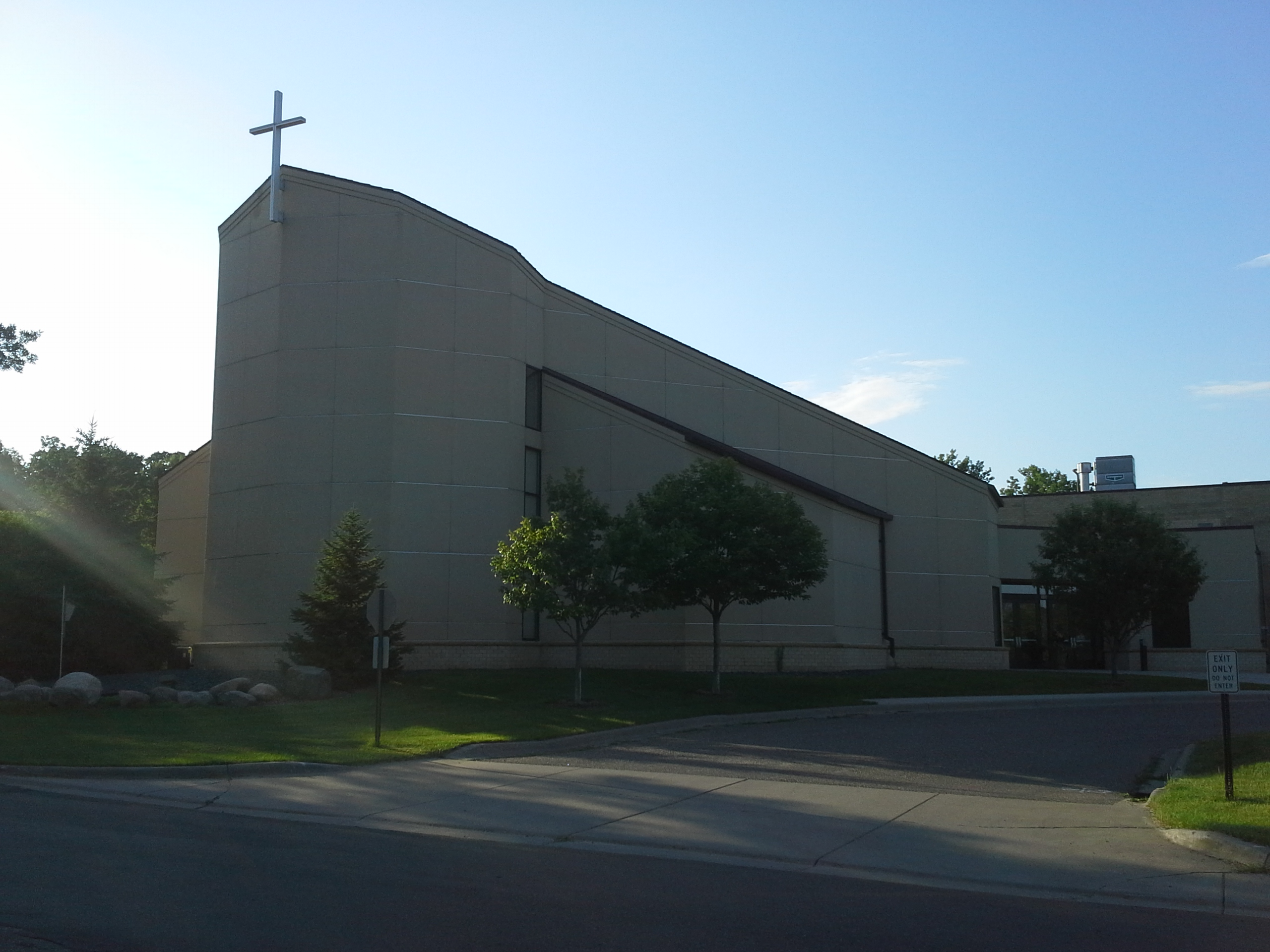 Crown of Life Lutheran Church in West St. Paul, MN